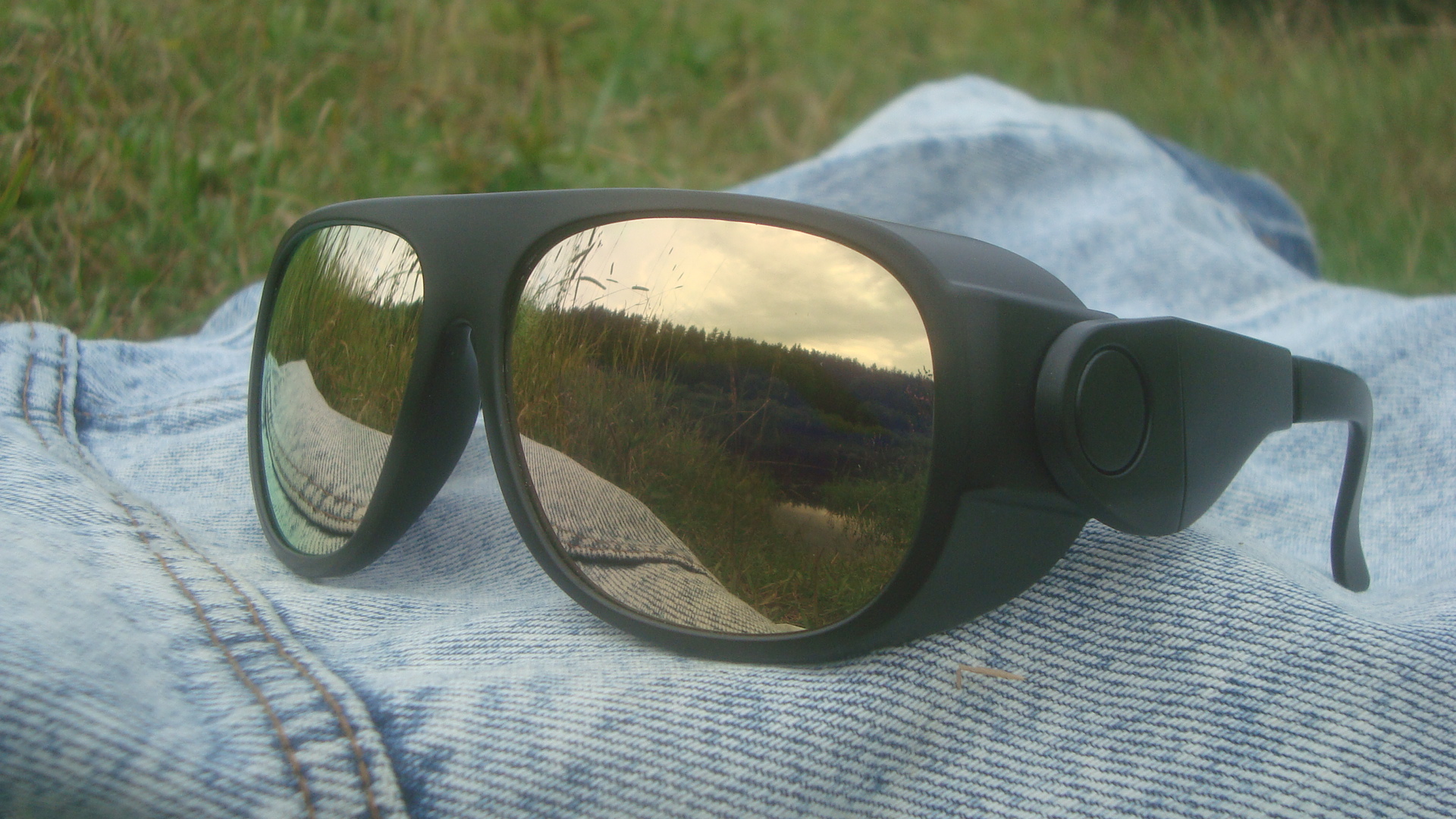 Safety glasses Phillips Safety Products Didymium and gold coating